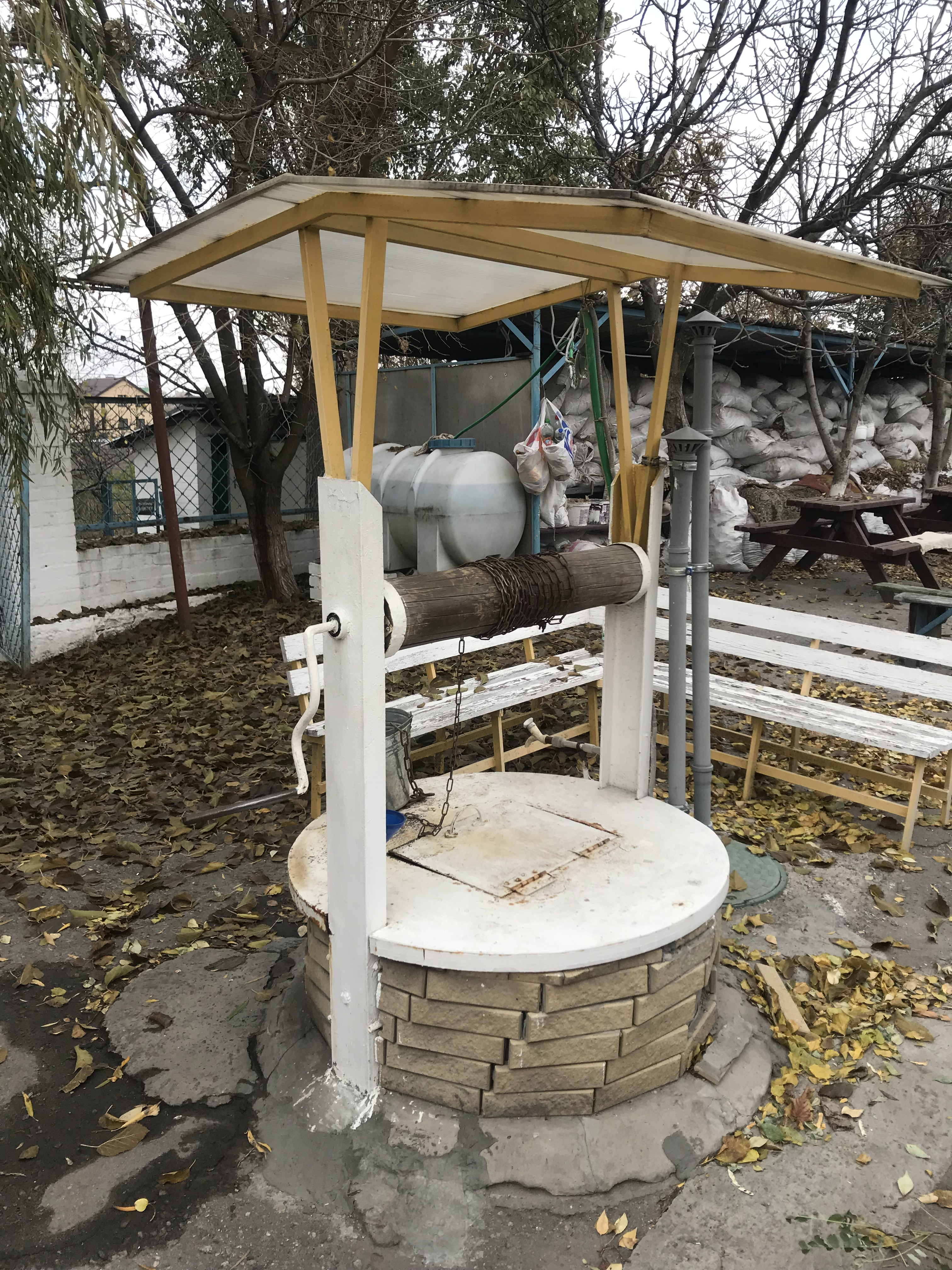 Well near Sviato-Mykolaivs'ka temple from west side in Dnipro, Ukraine